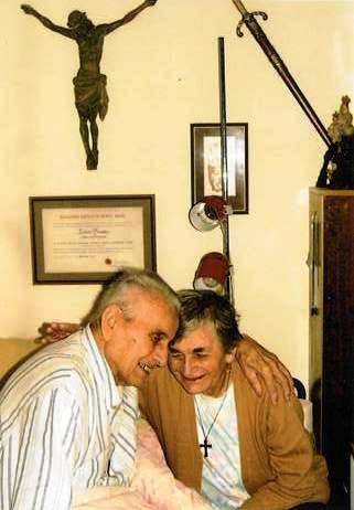 Ill Luboš Hruška with his wife Lída on the bed.